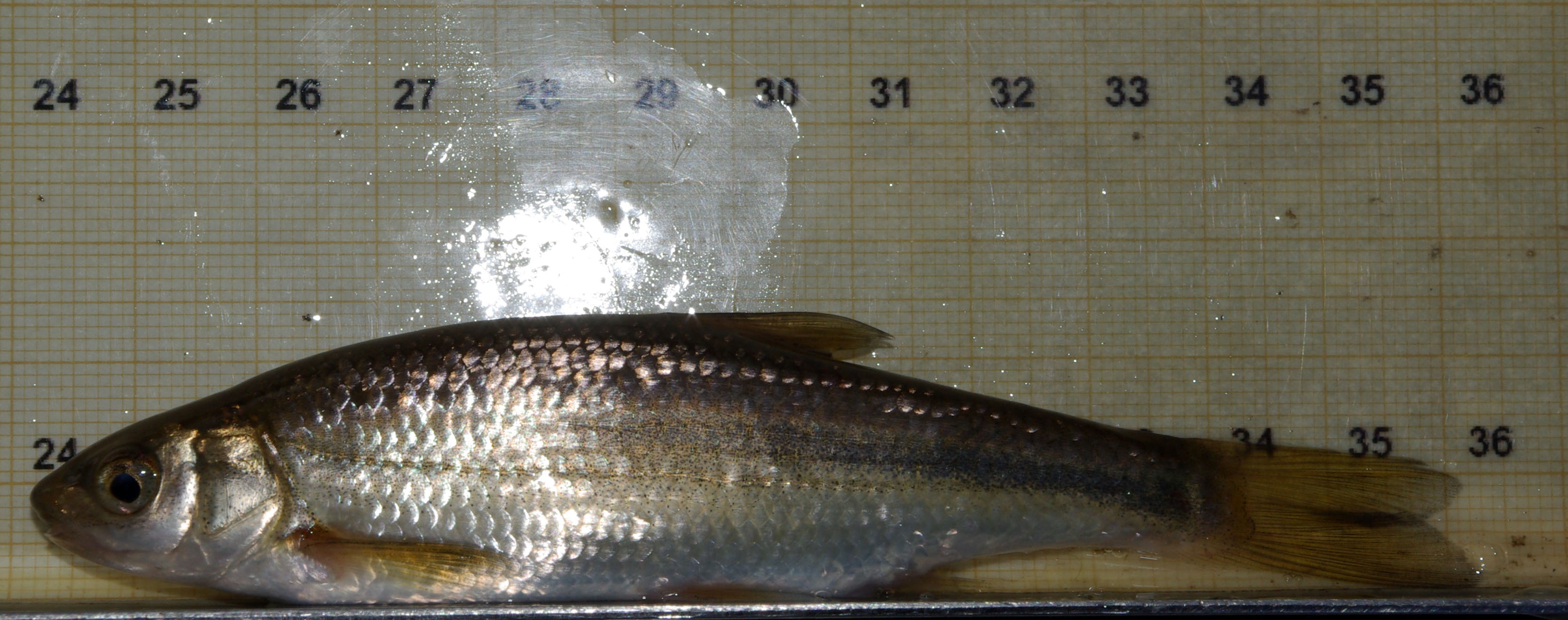 (Parachondrostoma miegii). River Ebro, near Cereceda, Burgos (Spain)